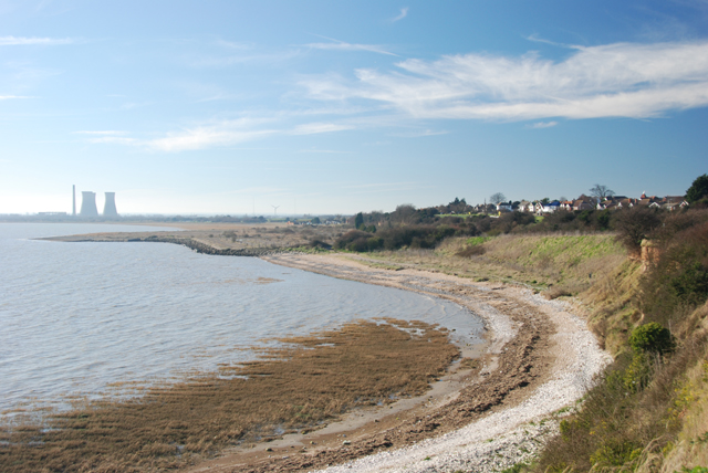 Pegwell Bay, Kent Photo taken from the Cliffsend to Pegwell path. To the right are houses along the Sandwich Road and in the background is the disused Richborough Power Station. In the middle of the photo, jutting into the bay, is the disused Hovercraft landing pad.